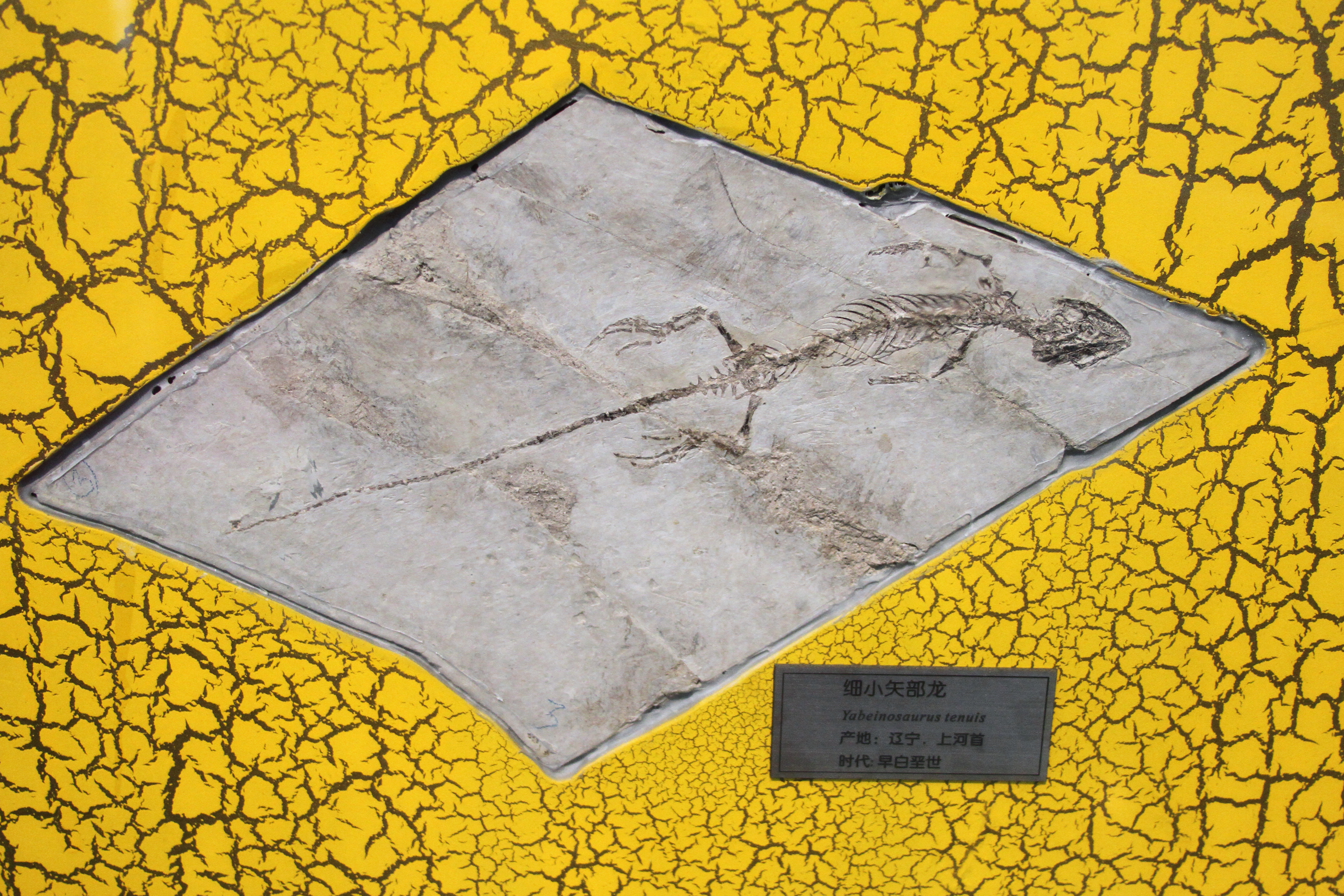 Yabeinosaurus tenuis fossil on display at the Beijing Museum of Natural History. Photo cropped and retouched using Picasa 3.0.